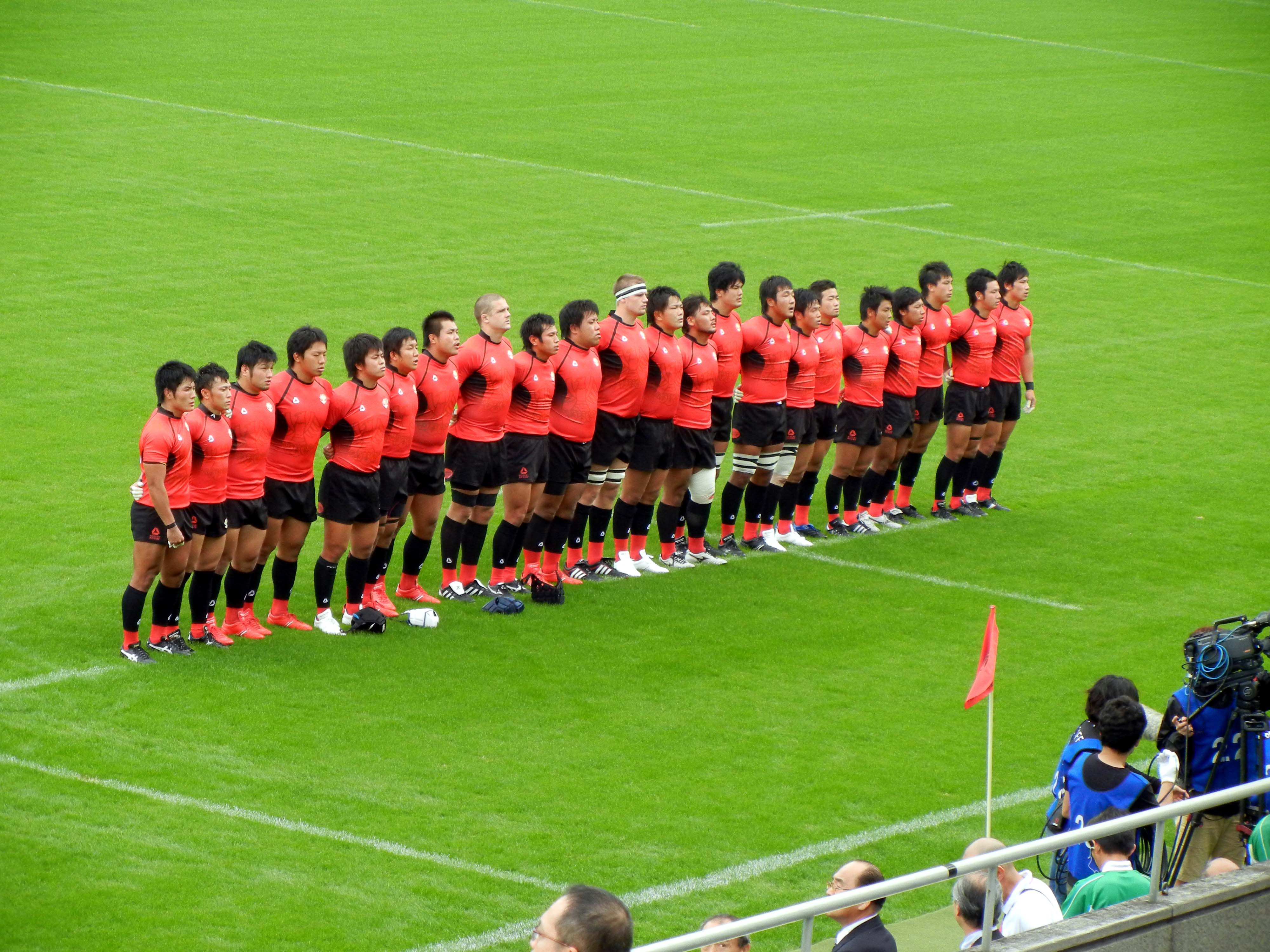 Teikyo University Rugby Football Club Players